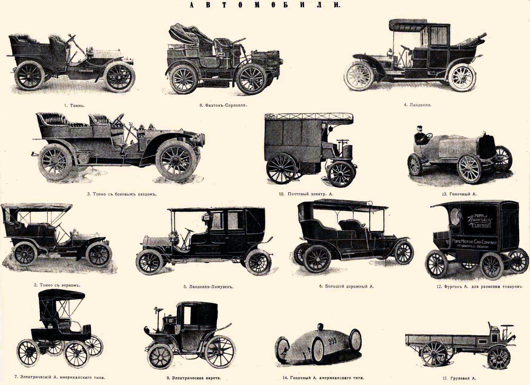 cars of 1905